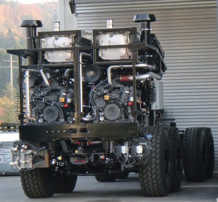 Titan chassis for a Rosenbauer Simba 8x8 fire engine. Two Mercedes V8 engines are fitted next to each other in the rear